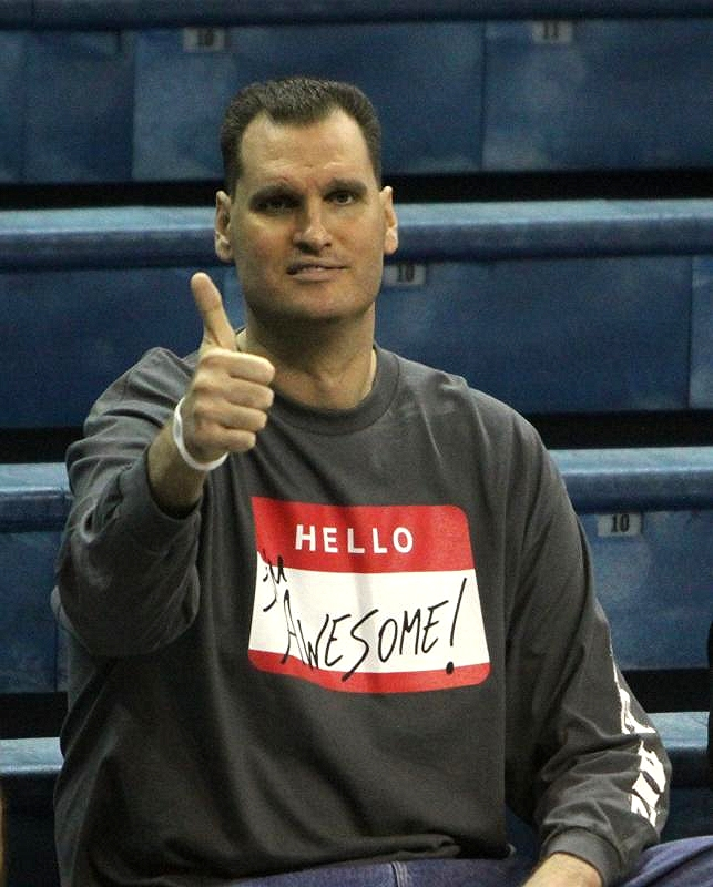 Former Gator basketball player Dwayne Schintzius RIP